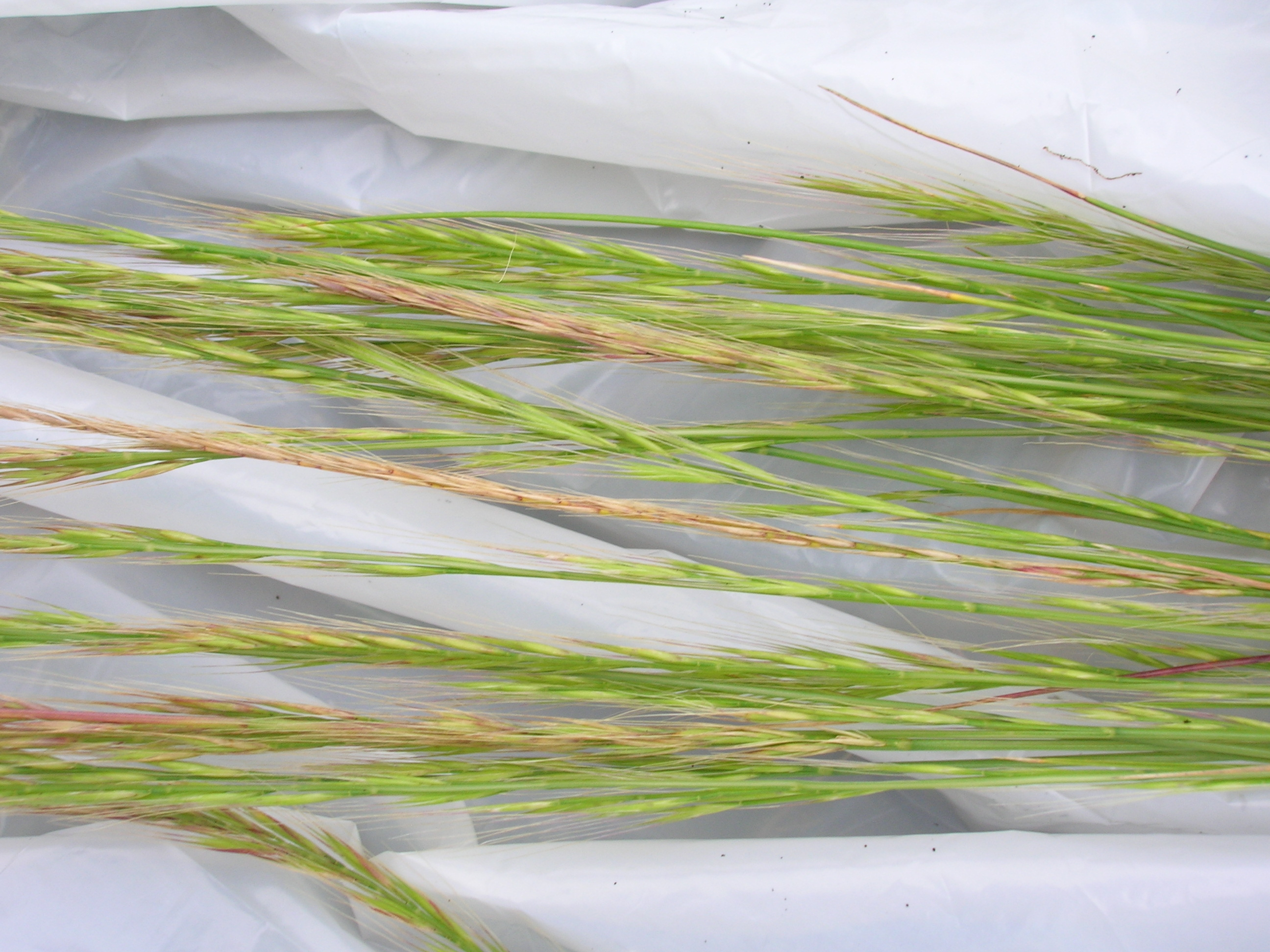 Vulpia bromoides (spikes). Location: Maui, Auwahi